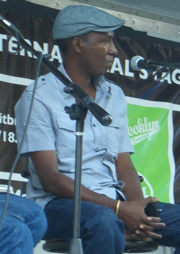 Writer Mohammed Naseehu Ali, speaking on a panel on African writing and culture, "Africa in the Age of Obama", at the 2009 Brooklyn Book Festival.